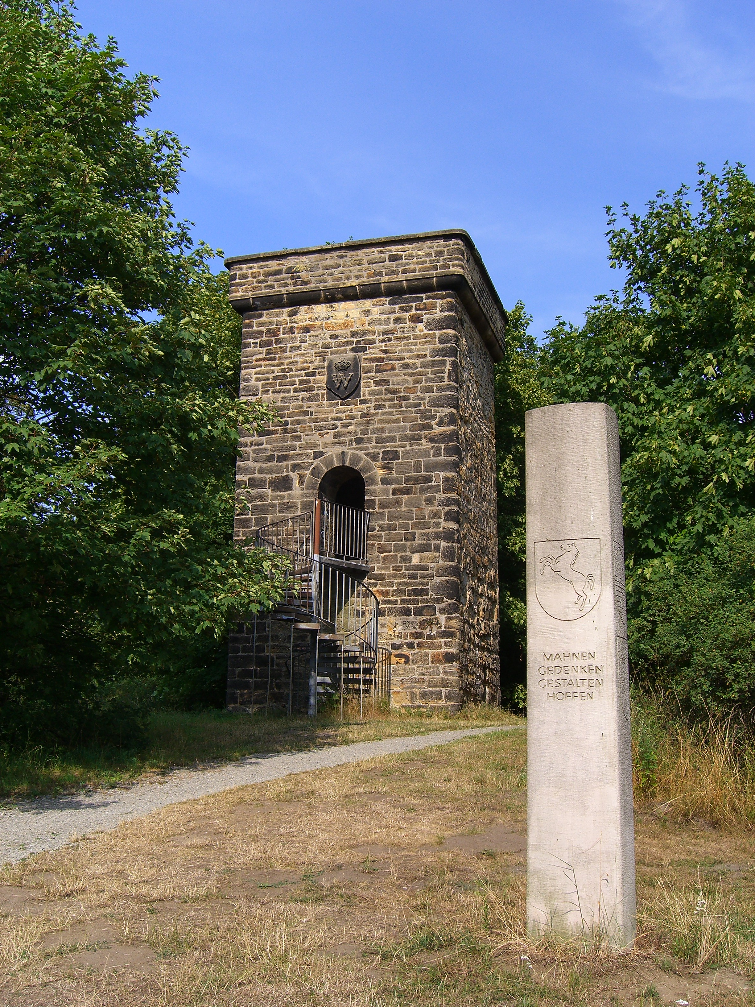 watchout tower in the Lappwald forest at Helmstedt